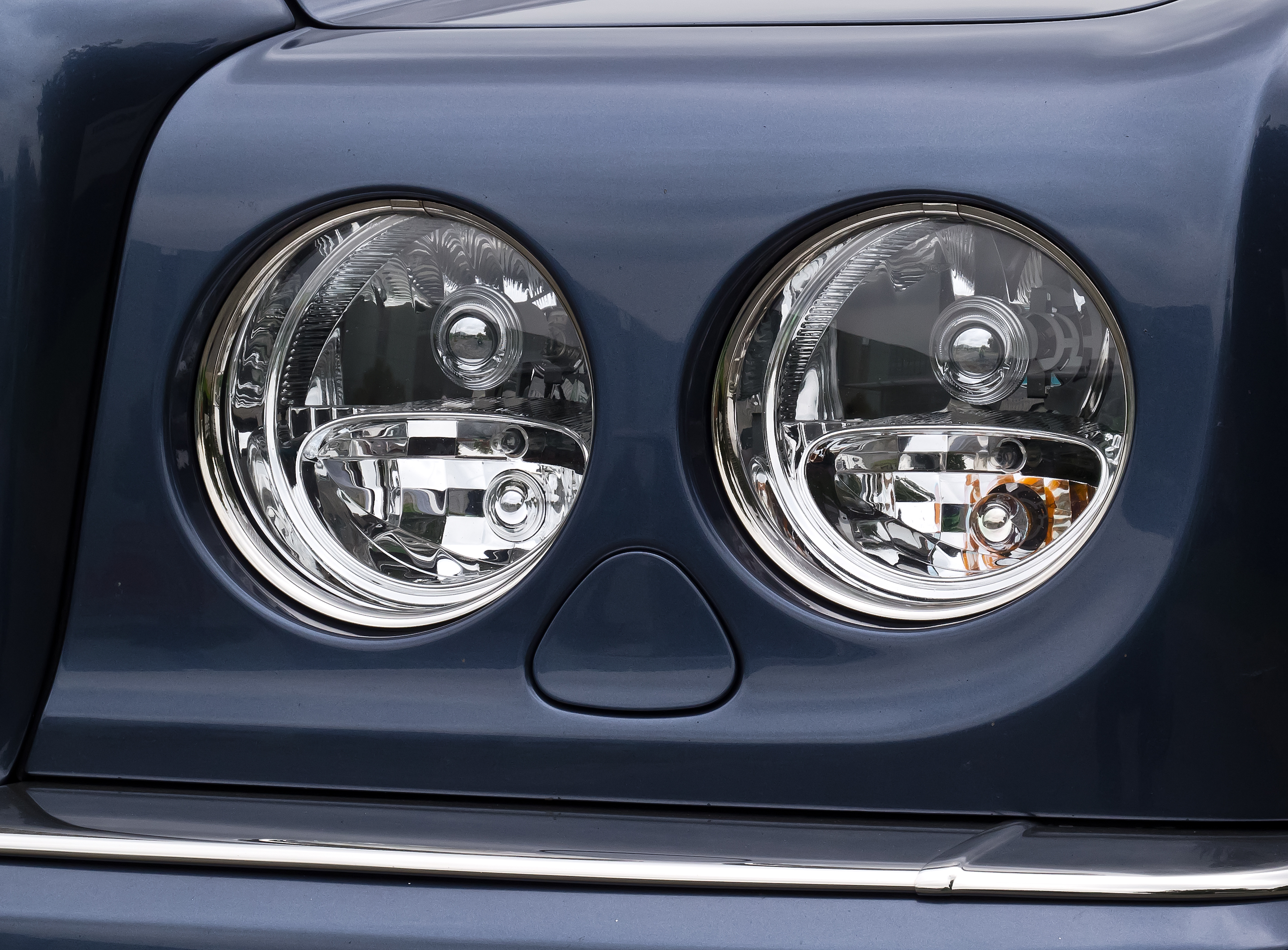 Bentley Arnage R (Facelift)